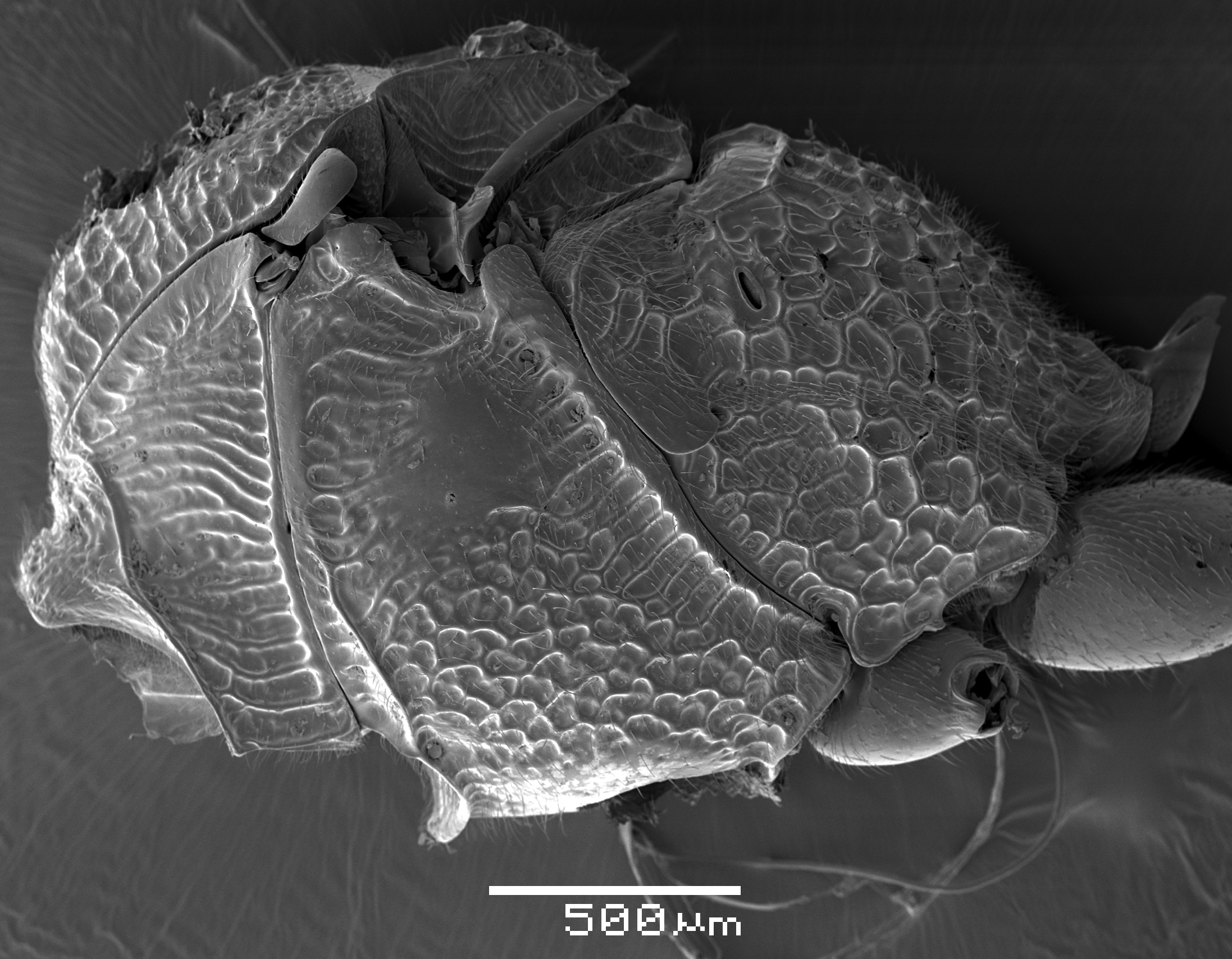 lateral view of mesosoma